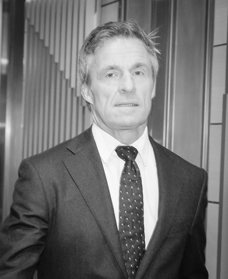 Jan Haudemann-Andersen at Governor Øystein Olsen's annual address in February 2018